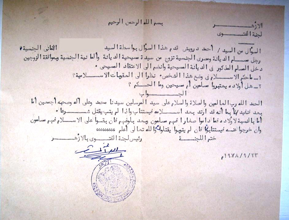 This Fatawa describes how an Egyptian man turned apostate and the subsequent punishment prescribed for him by the Al-Azhr Fatawa council. The following translation is a rough guide: In the Name of Allah the Most Beneficient the Most Merciful. Al-Azhr Council of Fatawa. This question was presented by Mr. Ahmed Darwish and brought forward by [name obscured] who is of German nationality. A man whose religion was Islam and his nationality is Egyptian married a German Christian and the couple agreed that the husband would join the Christian faith and doctrine. 1) What is the Islamic ruling in relation to this man? What are the punishments prescribed for this act? 2) Are his children considered Muslim or Christian? The Answer: All praise is to Allah, the Lord of the Universe and salutations on the leader of the righteous, our master Muhammed, his family and all of his companions. Thereafter: This man has committed apostasy; he must be given a chance to repent and if he does not then he must be killed according to Shariah. As far as his children are concerned, as long as they are children they are considered Muslim, but after they reach the age of puberty, then if they remain with Islam they are Muslim, but if they leave Islam and they do not repent they must be killed and Allah knows best. Seal of Al-Azhr Head of the Fatawa Council of Al-Azhr. Abdullah al-Mishadd (عبد الله المشد) 23rd September 1978.